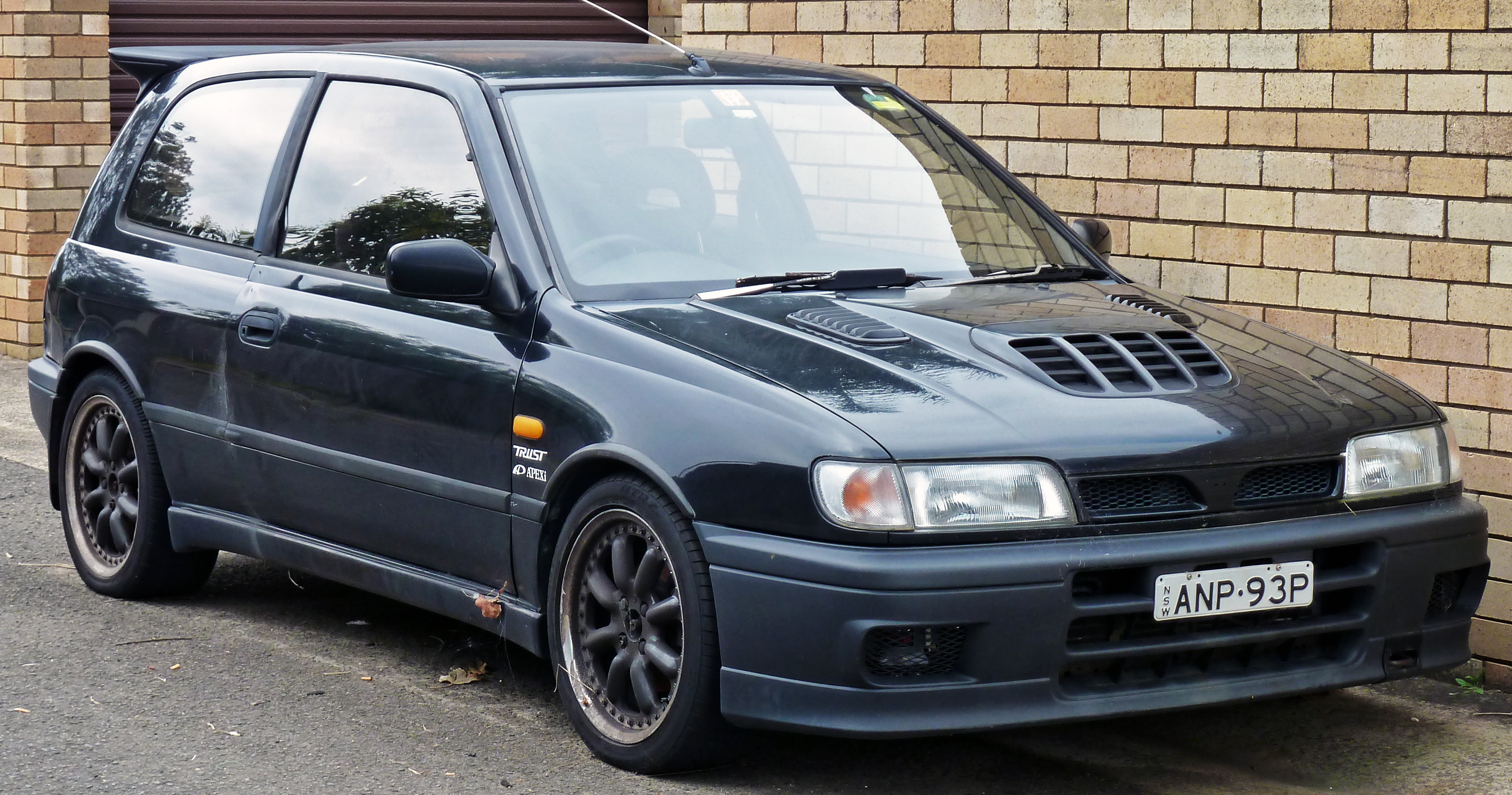 1991 Nissan Pulsar (N14) GTI-R 3-door hatchback (Japanese grey import). Photographed in Sandringham, New South Wales, Australia.